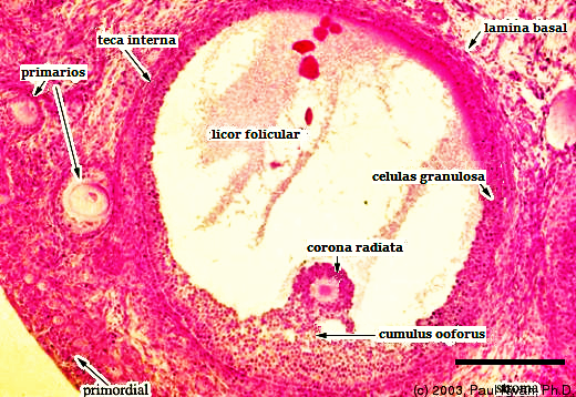 The antrum of this secondary follicle is quite large. Some of the proteins in the follicular liquor stained light pink. The oocyte, which has reached its maximum size, is surrounded by the corona radiata* and sits on the cumulus oophorous. (*Strictly, the corona radiata refees to the rim of cells that enclose the oocyte that leaves the follicle at ovulation. In other words, a free floating object. Here the term is used a bit more loosely since we are not likely to catch the oocyte in the act of escaping. Compare the size of this follicle with the smaller ones in the cortex, using the surface epithelium as a reference and you can appreciate how large this secondary follicle is. PK1464. Original mag. 25x H&E. Secondary follicle. Cortex. Ovary. Female Reproductive System. Cat.